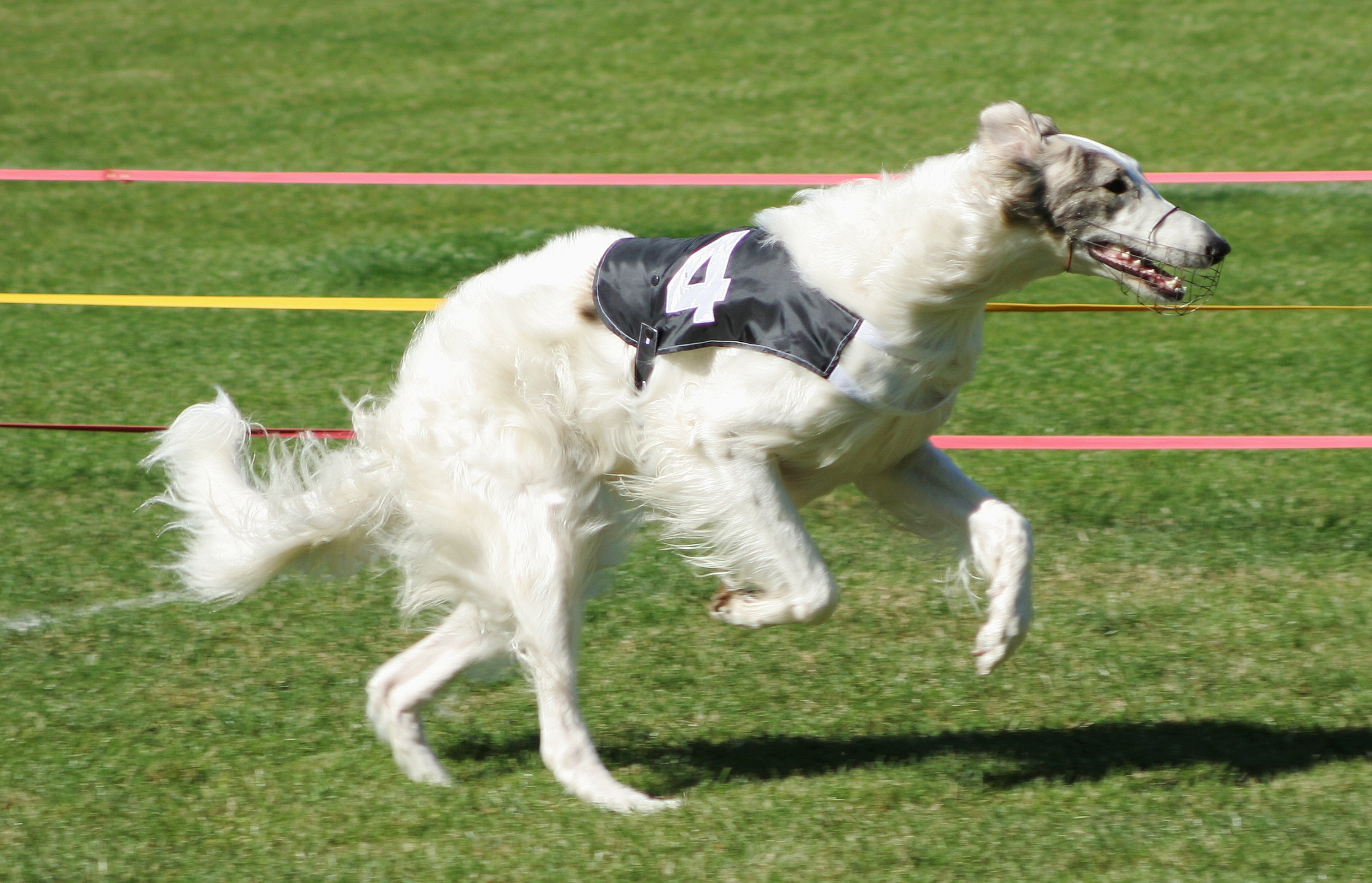 Borzois during the dog's racing in Bytom - Szombierki, Poland.